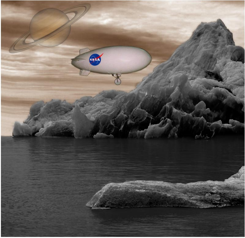 Artist's concept of Aerover Blimp.